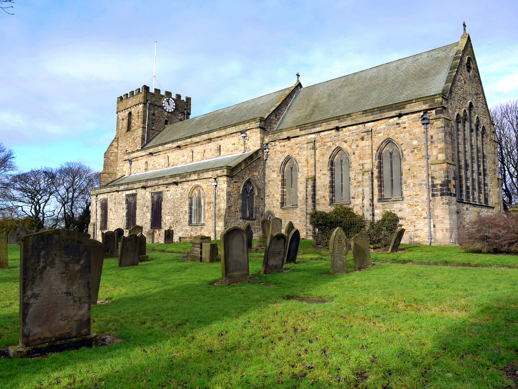 St Mary the Virgin, Parish Church of Easington The south aspect. The church tower is the earliest part of the building, dating from the mid C12. It is a prominent landmark from the sea and in pre-GPS days was an important navigation aid for progress along the Durham coast.